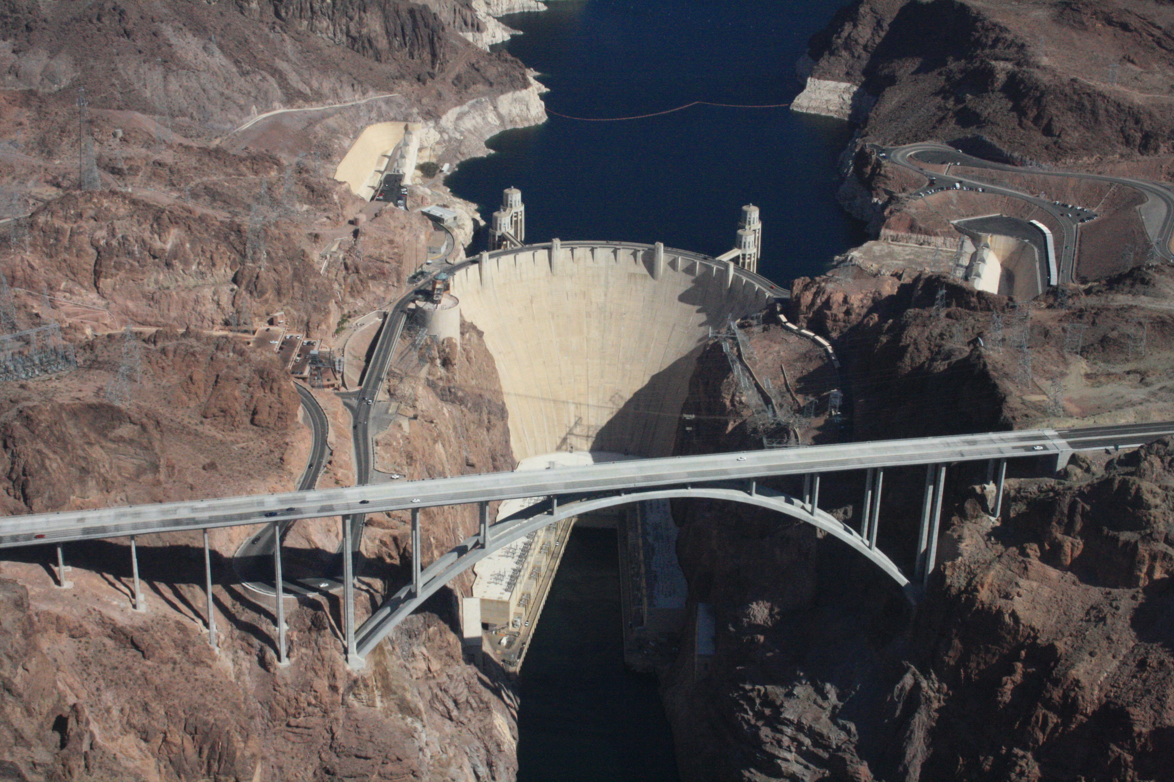 The Hoover Dam from the air. Colorado river and Lake Mead. Significant water level decline is indicated by the white high water line